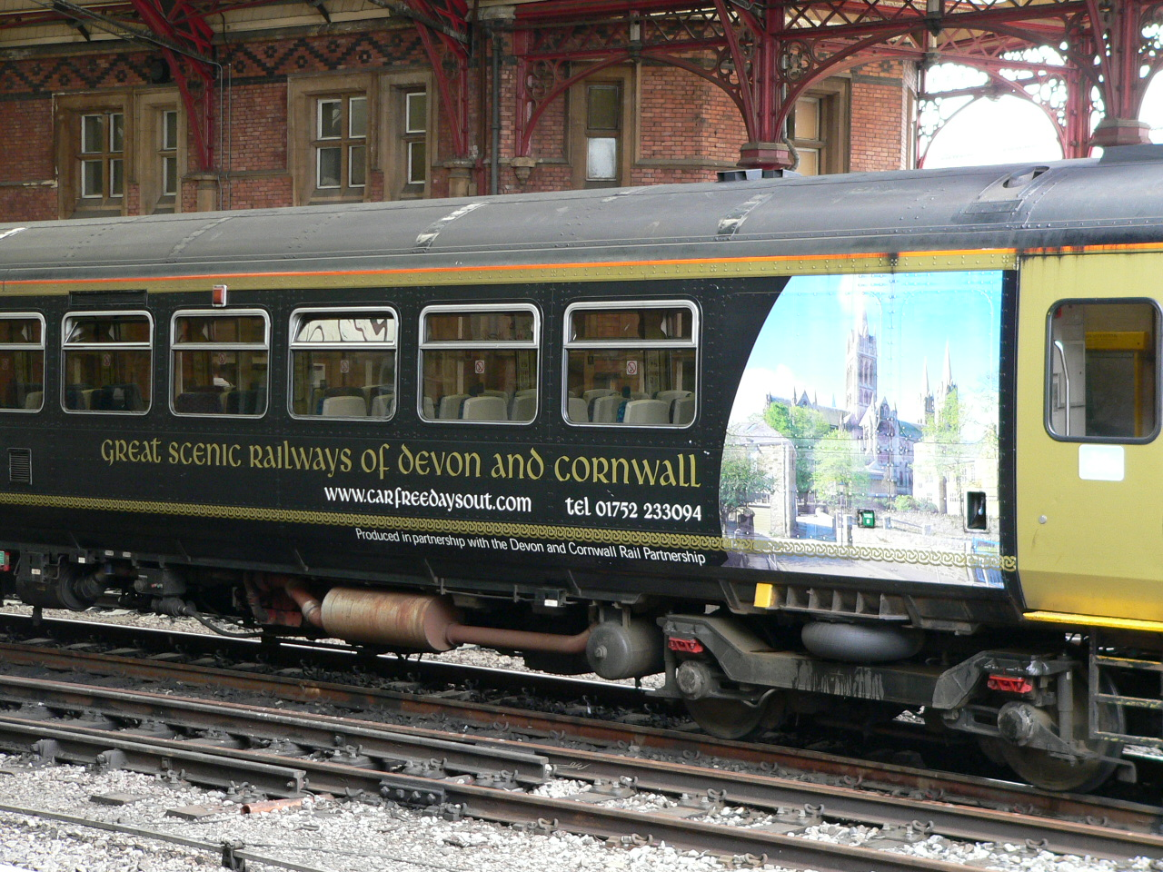 Detail of the Wessex Trains promotional liveries. This is a Class 153 DMU advertising Great Scenic Railways of Devon and Cornwall.